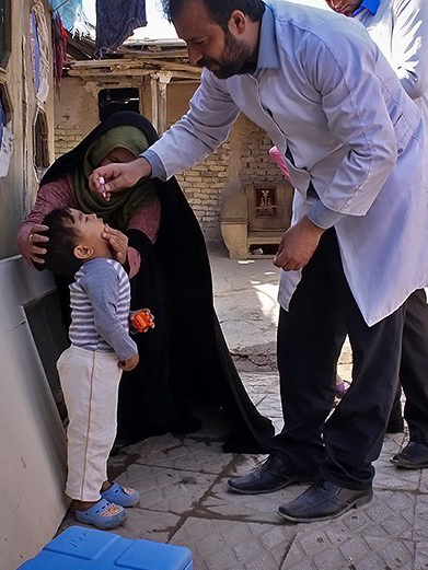 Polio Vaccination(Oral) around Tehran.